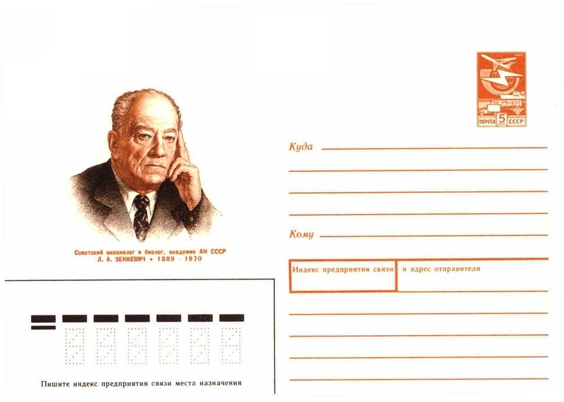 1989 Soviet postal cover with portrait